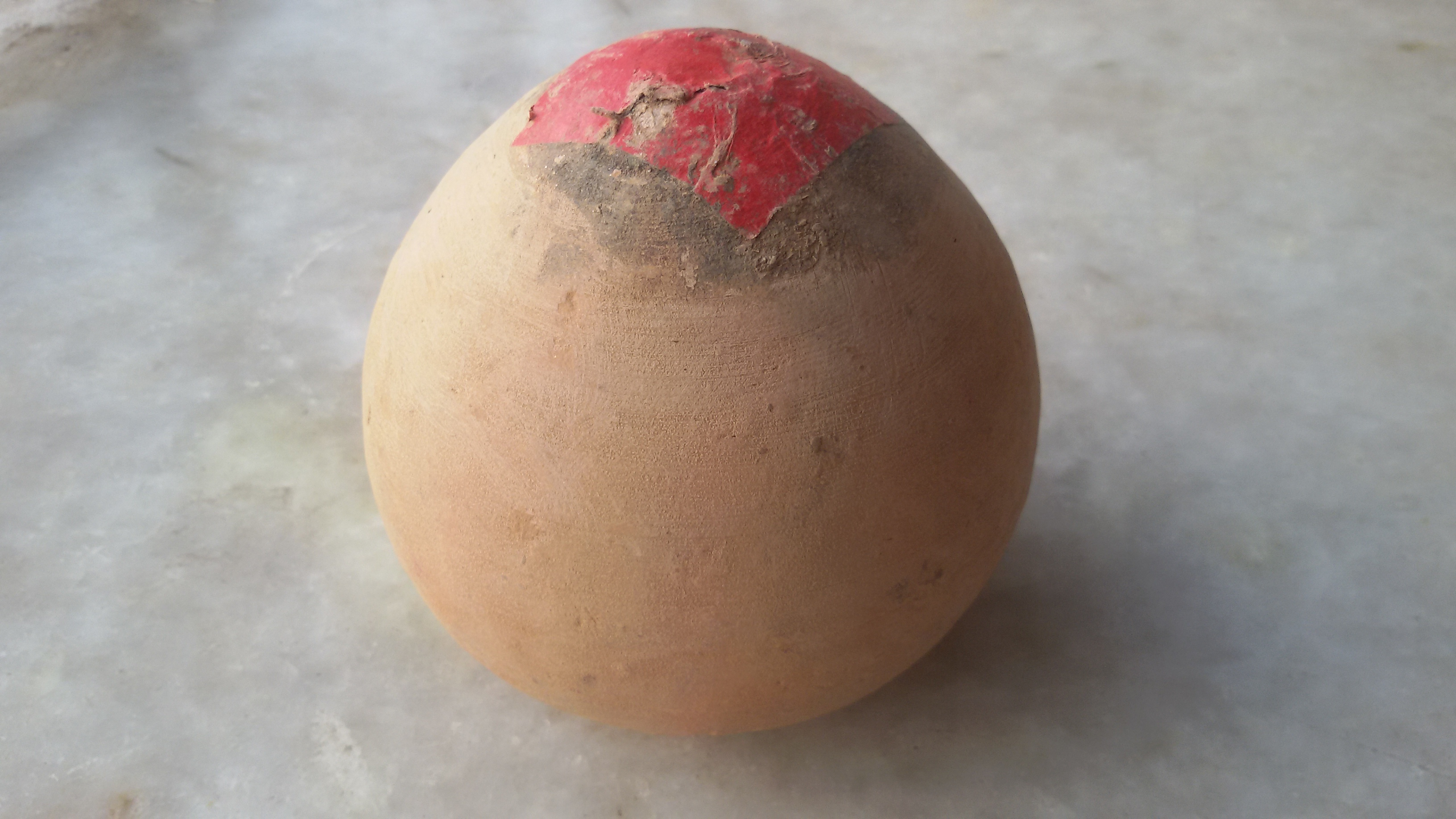 Photograph of tubri, a popular firework of West Bengal.